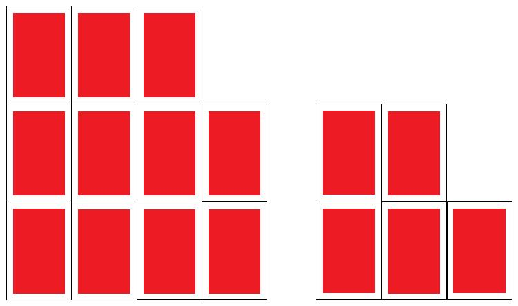 Schemes of the 11-block and 5-block.